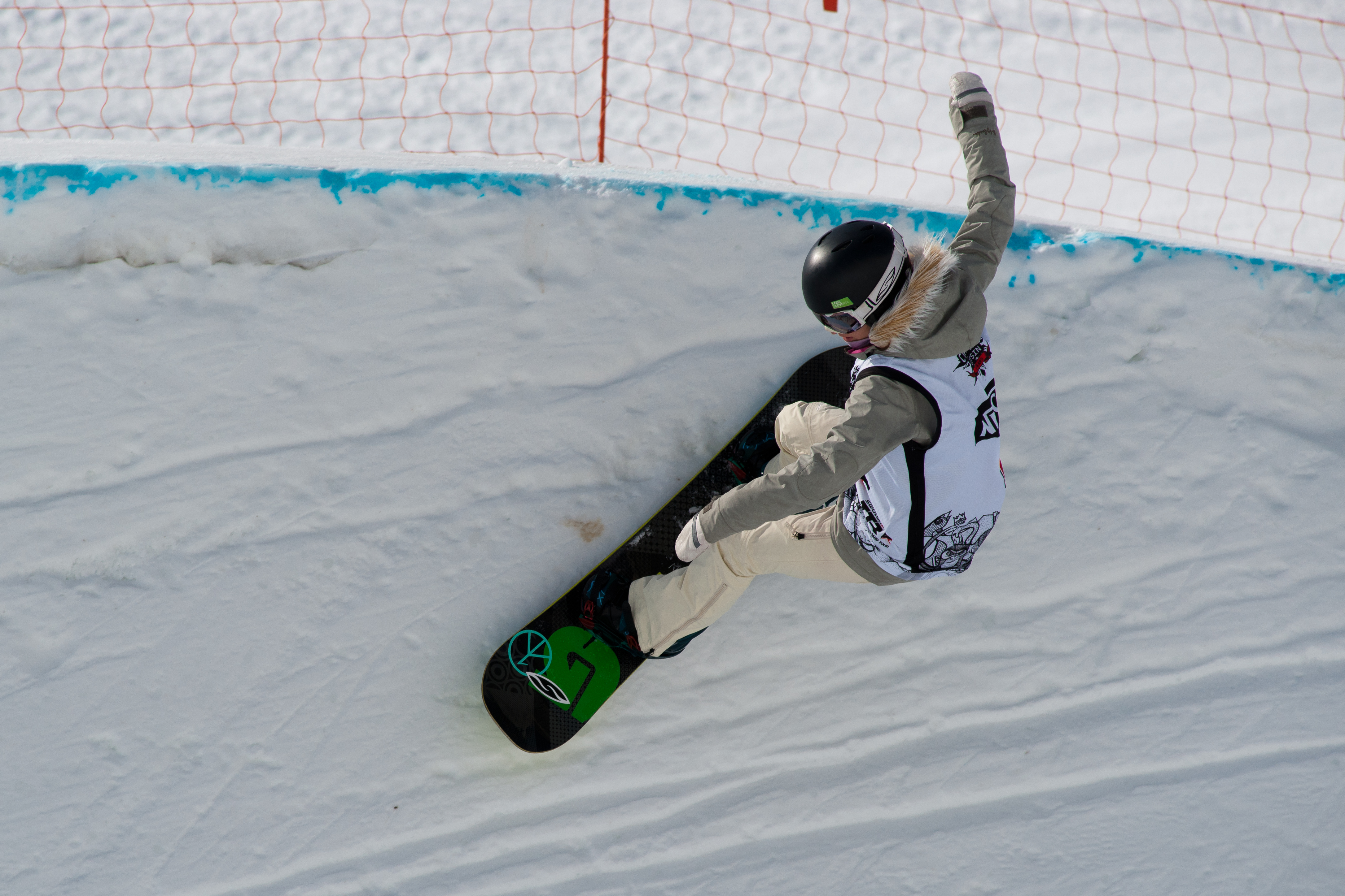 The making of this document was supported by Wikimedia CH. (Submit your project!) For all the files concerned, please see the category Supported by Wikimedia CH. 20th Leysin Nescafe Champs, 8th - 13th February 2011